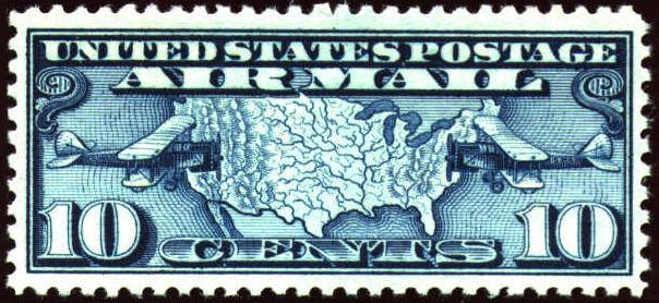 February 13, 1926 10¢ Dark Blue Map of the U.S. & two planes Scott #C7